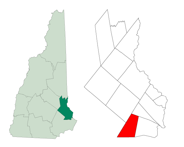 Created from Boundary/Border Outline Files of the Libre Map Project which held a BY-SA creative commons license. Data origionally from 2000 US Census boundary data.